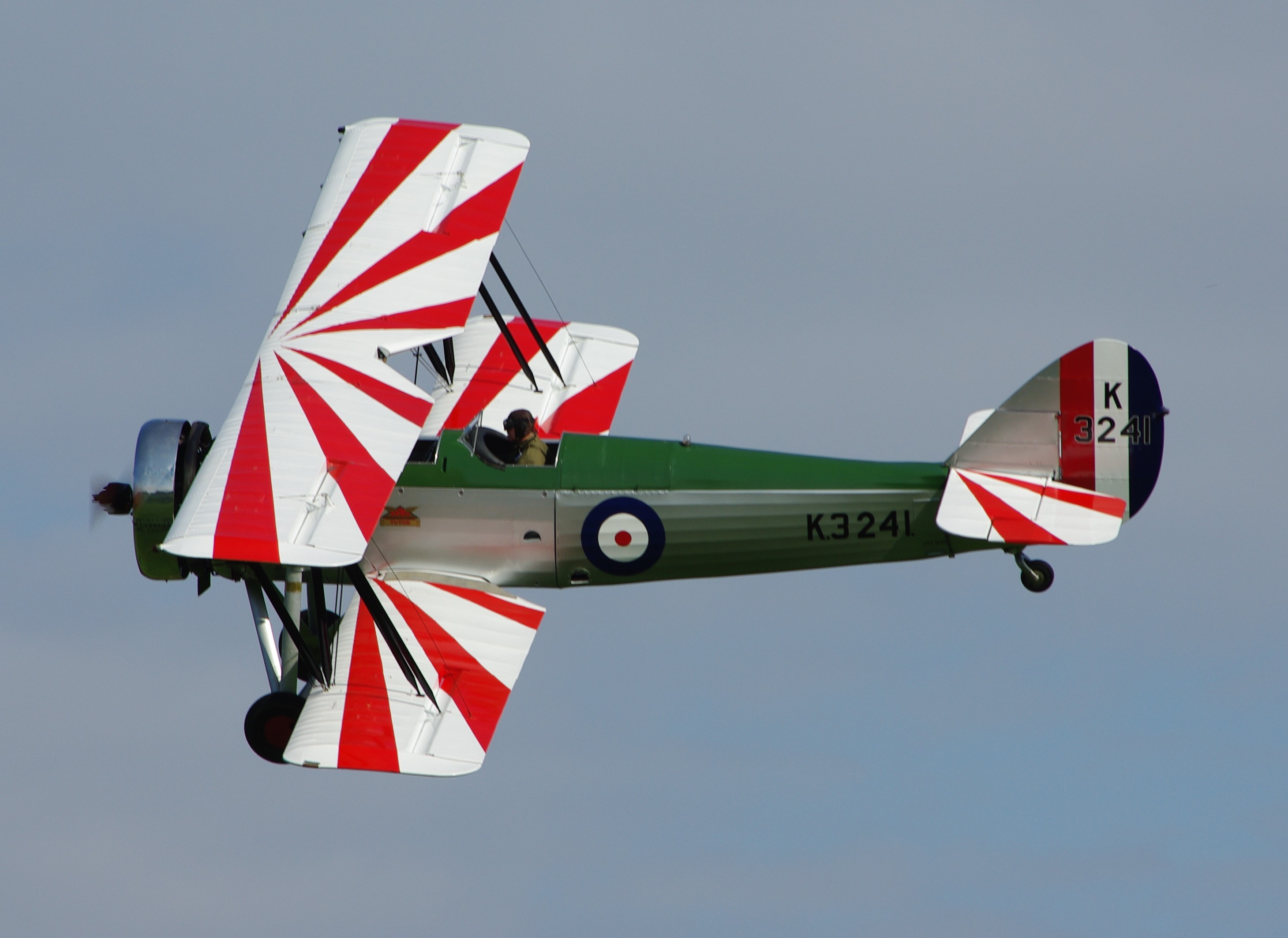 Avro Tutor of Shuttleworth collection 7 September 2008. G-AHSA was used for communication duties during the Second World War, struck off December 1946 and purchased by Wing Commander Heywood. After suffering engine failure in the early stages of the filming of Reach for the Sky, it was purchased by the Shuttleworth Collection and restored to flying condition. Up to the end of 2003, G-AHSA was still flying as K3215 in RAF trainer yellow. Since January 2004 it has flown painted as K3241 in the colours of the Central Flying School. (The real K3241 built in 1933, served RAF College Cranwell, until transferred to the CFA in 1936.)